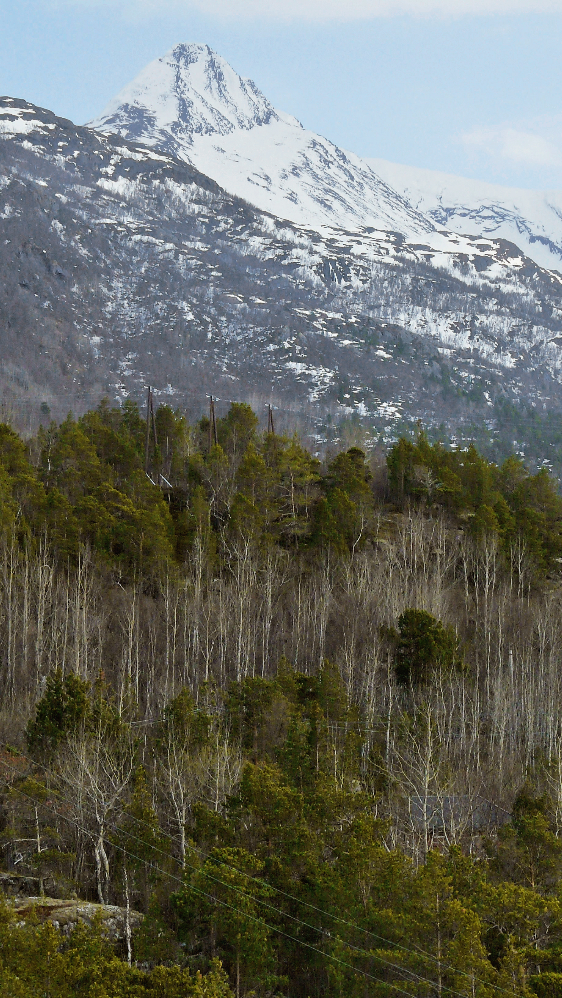 Skjomtinden (1,575 m) in Narvik municipality as seen from the eastern head of Skjombrua (bridge) in 2009 May.